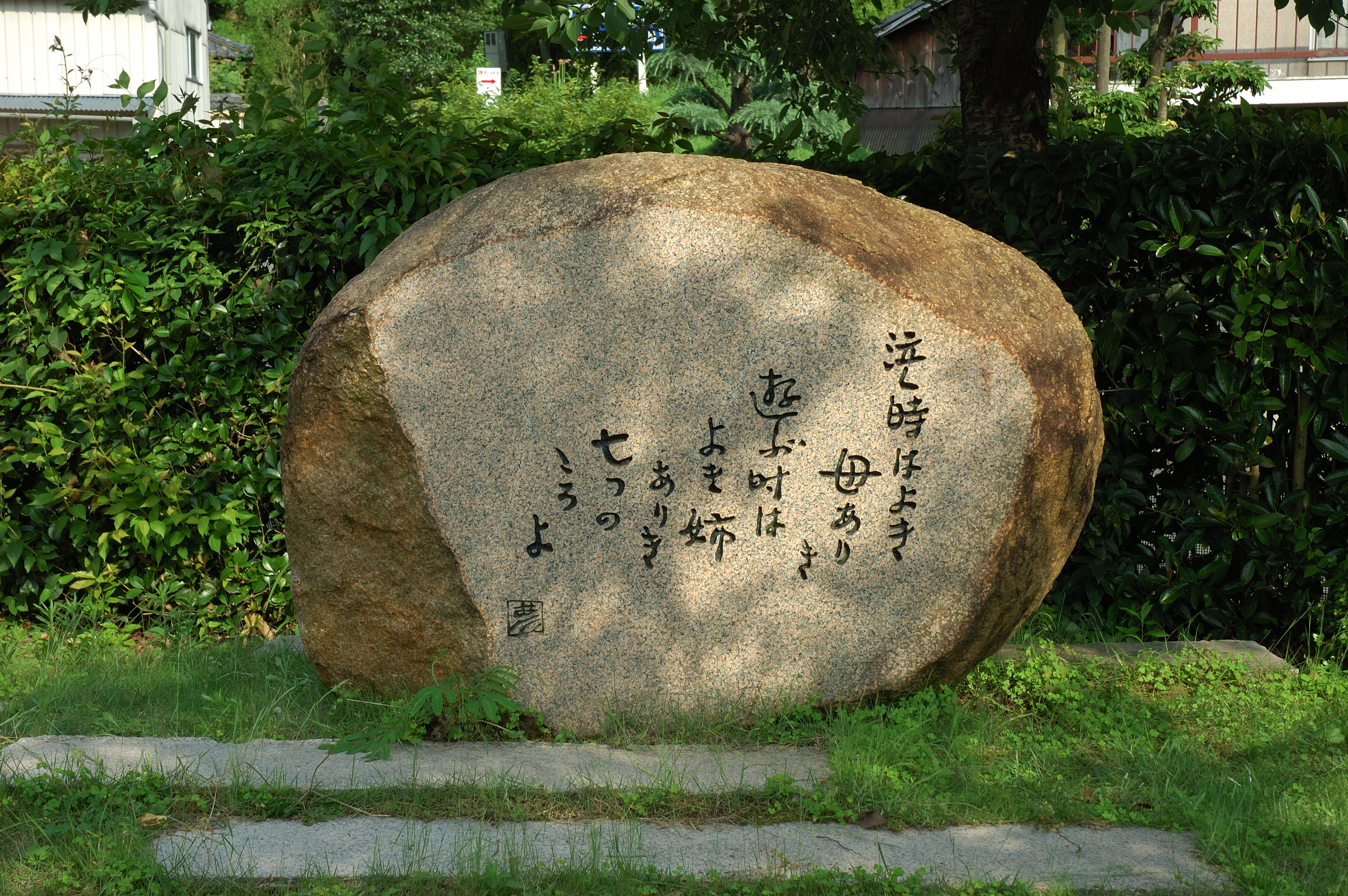 Yumeji Takehisa stone monument in his birth place